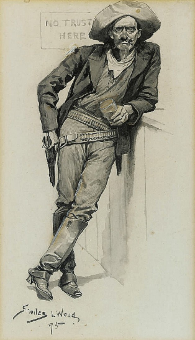 dated 'Stanley L Wood/95' (lower left)"No Trust Here", Drawing of cowboy en grisaille on paper, 9 x 5in. (22.8 x 12.7cm.)